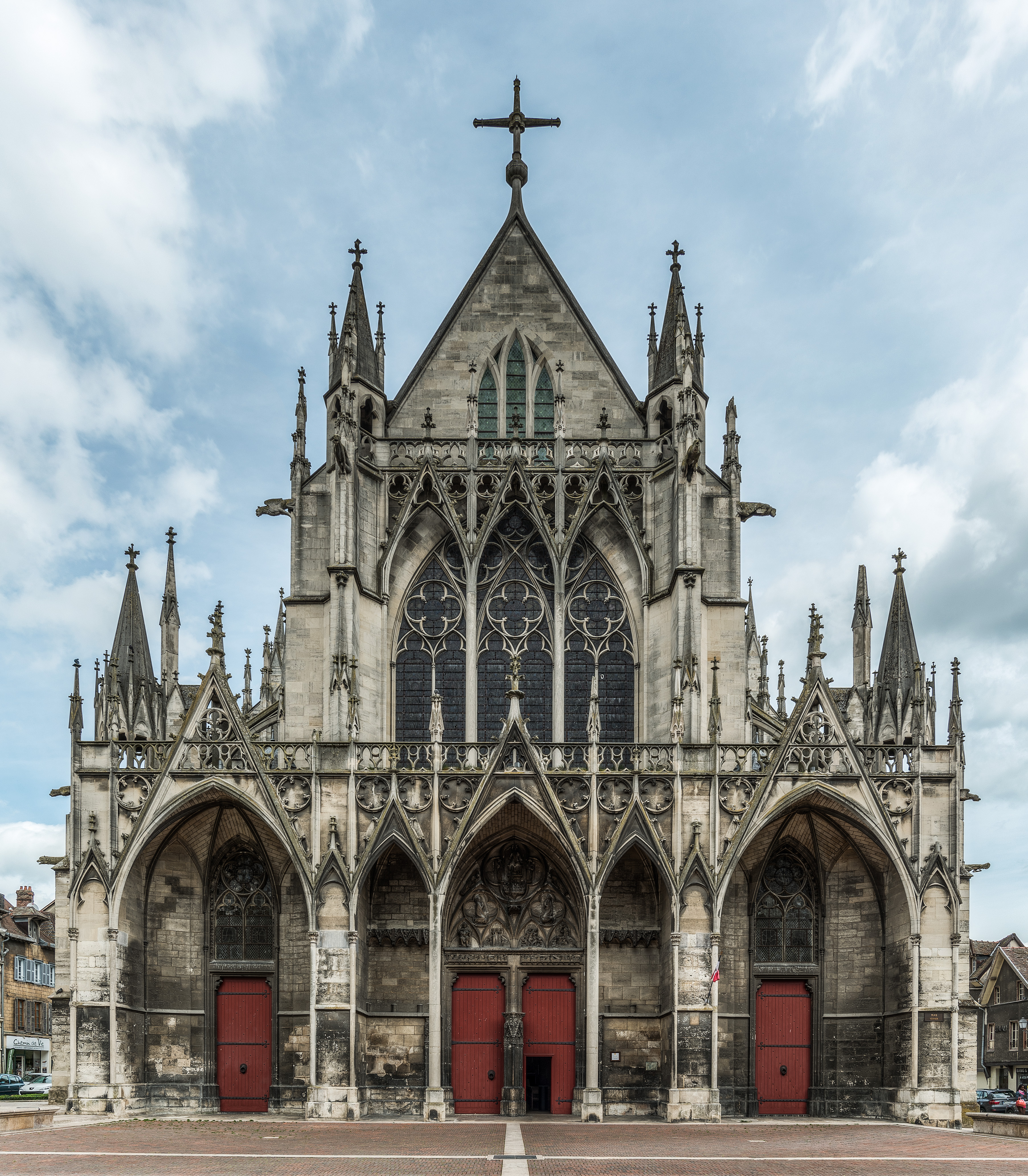 The west façade of Saint-Urbain de Troyes, a major basilica of the city. This is a retouched picture, which means that it has been digitally altered from its original version. Modifications: Blended 5-image HDR.